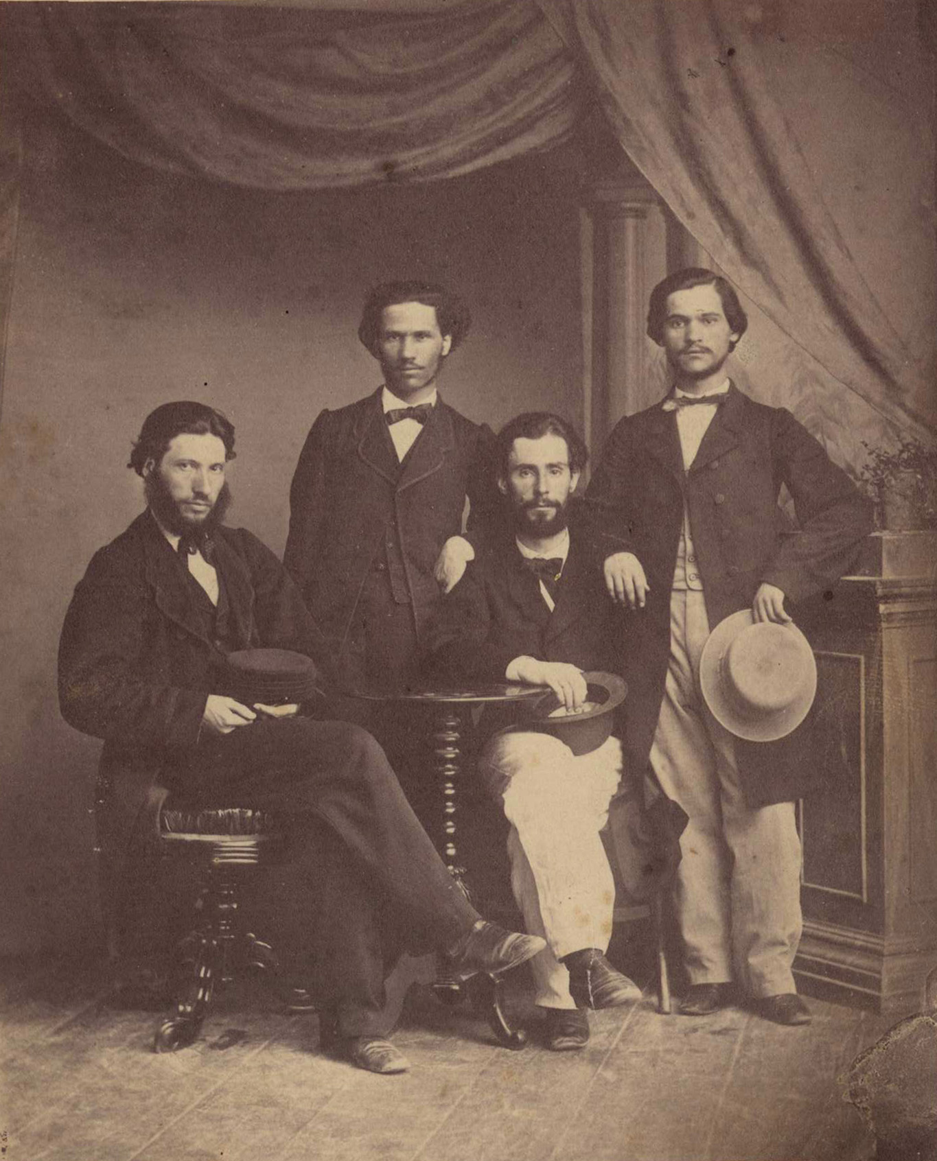 Vasil Drumev, Petar, Genchev, D. Duhovnikov, Ivan Gyuzelev in Odessa